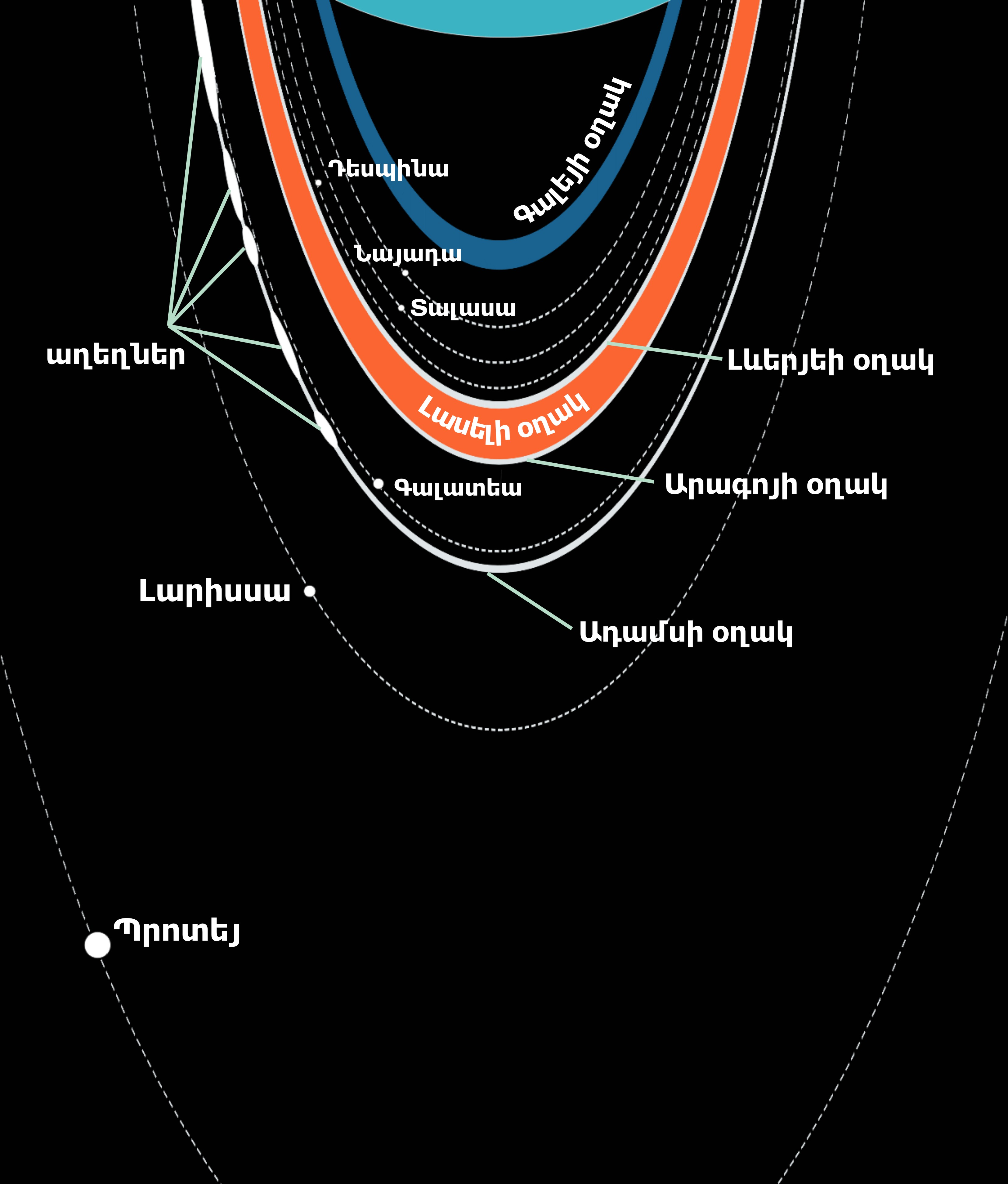 2=The scheme of the ring-moon system of the planet Neptune. The proportions are real.